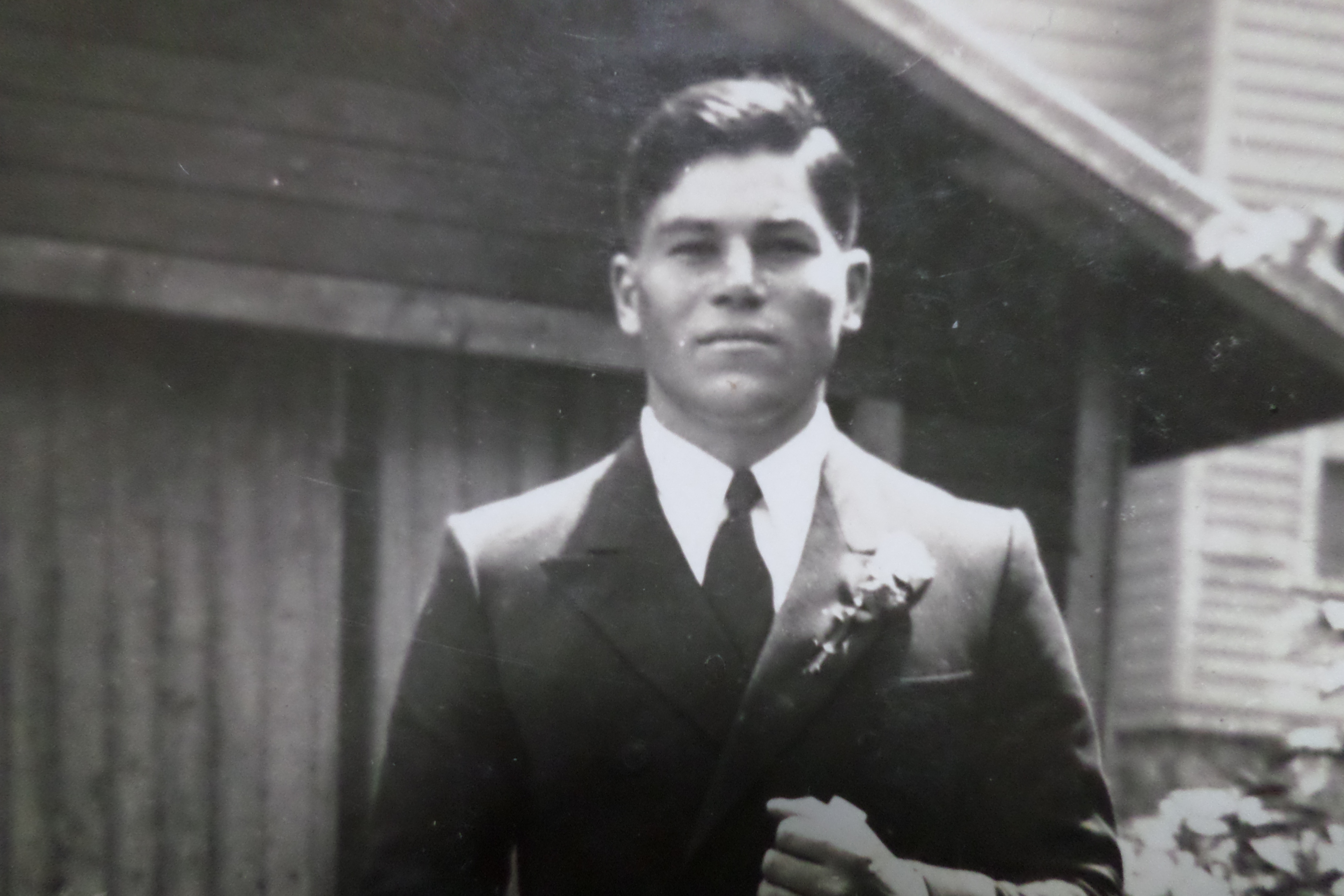 David Smukler (undated photo)